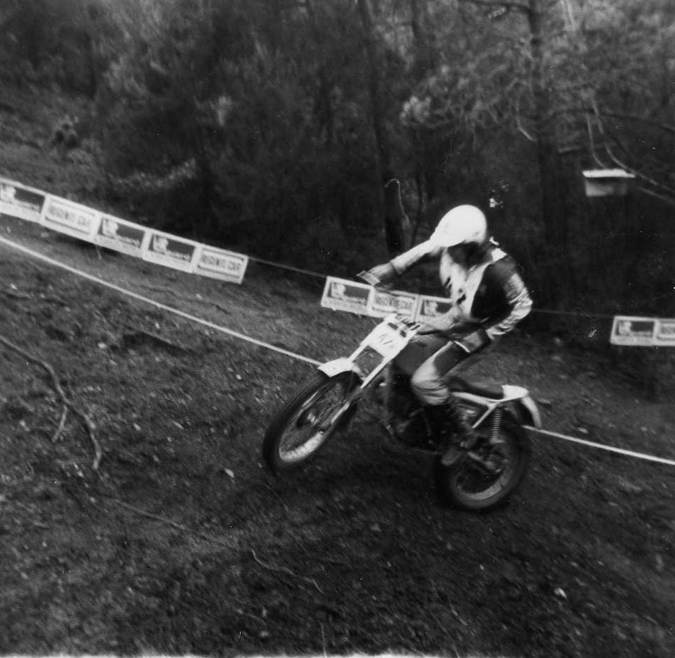 Bernie Schreiber with his Bultaco Sherpa T at XII "Trial de Sant Llorenç" in Matadepera (Catalonia) on March 12, 1978. It was the 5th race of the Trial World Championship. He won the race. This was the section #15, near "La Barata" (close to the road from Matadepera to Talamanca).